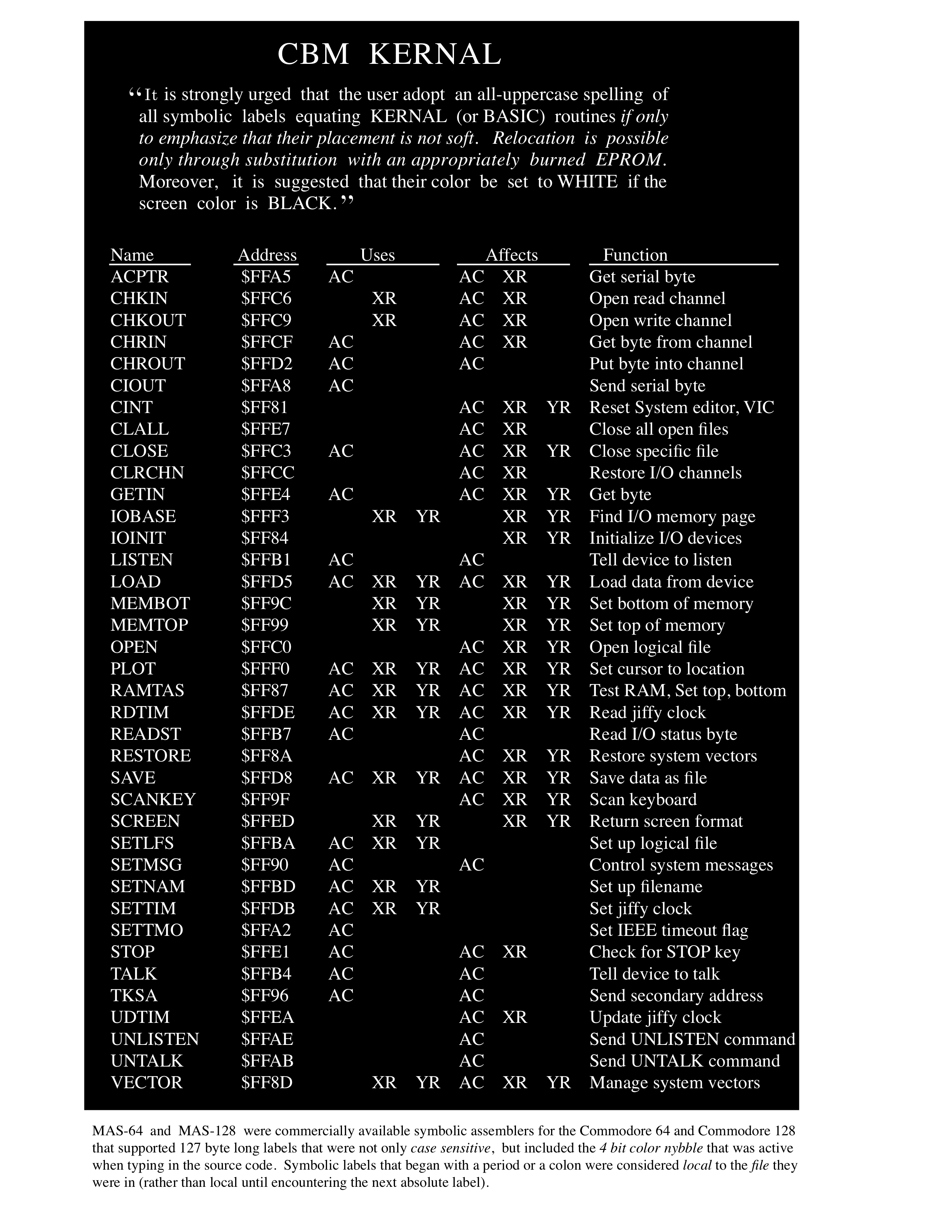 Similar to Page 42 of the documentation to MAS-64, listing the Commodore Kernal Jump Table, and which registers (specifically, the Accumulator, X register, Y register) are needed to convey the information, which registers are subject to alteration, although not guaranteed to be altered, and a brief description of what the Commodore Jump Table entry is supposed to do.